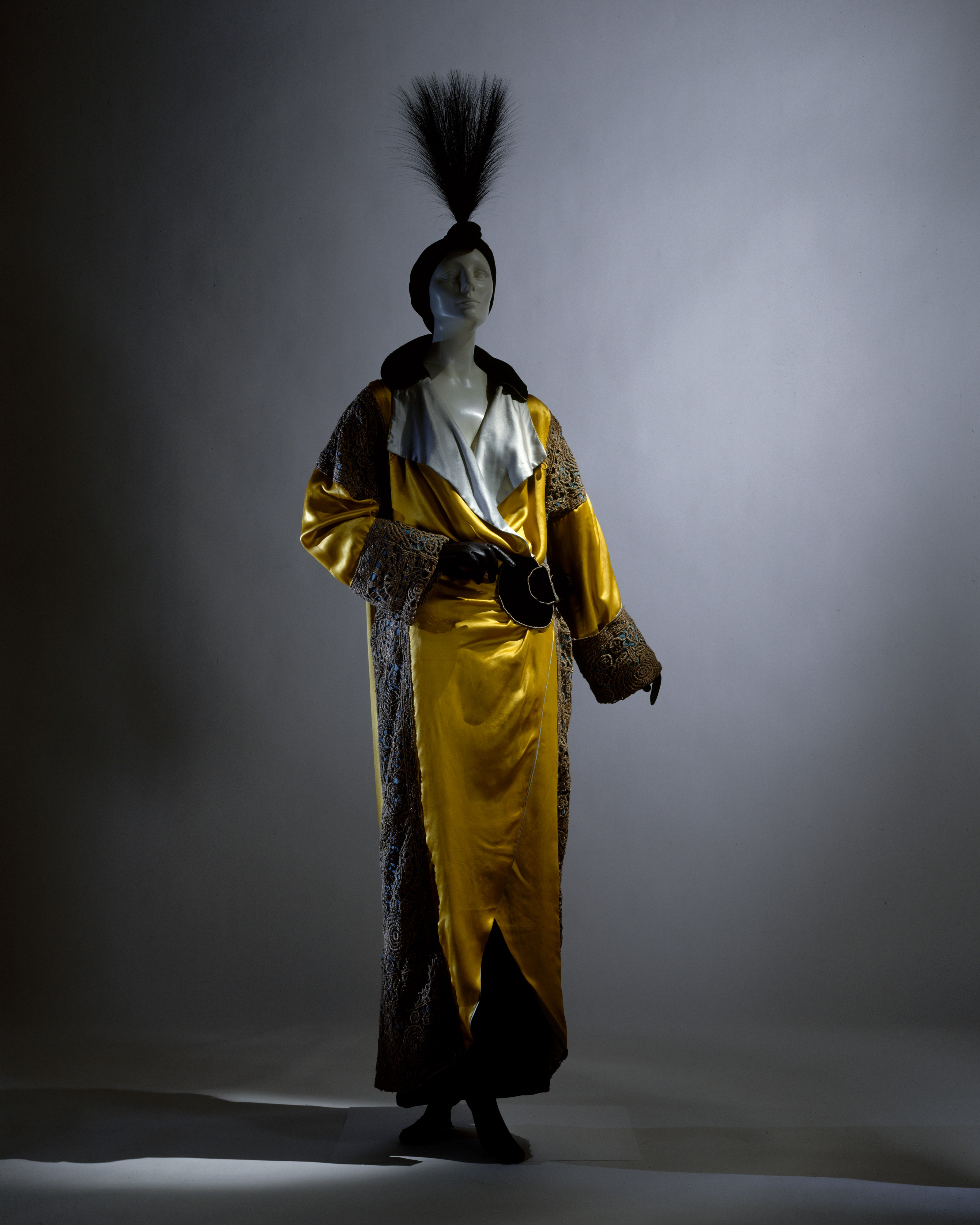 French; Opera coat